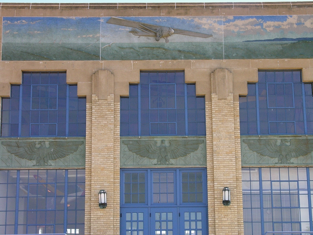 Fantastic Bas-relief of the Spirit of St.Louis crossing the Atlantic